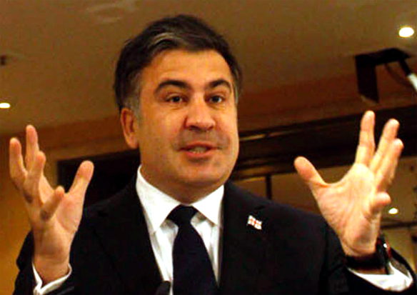 48th Munich Security Conference 2012: Mikheil Saakashvili, President, Georgia, during his speech on Sundaymorning.